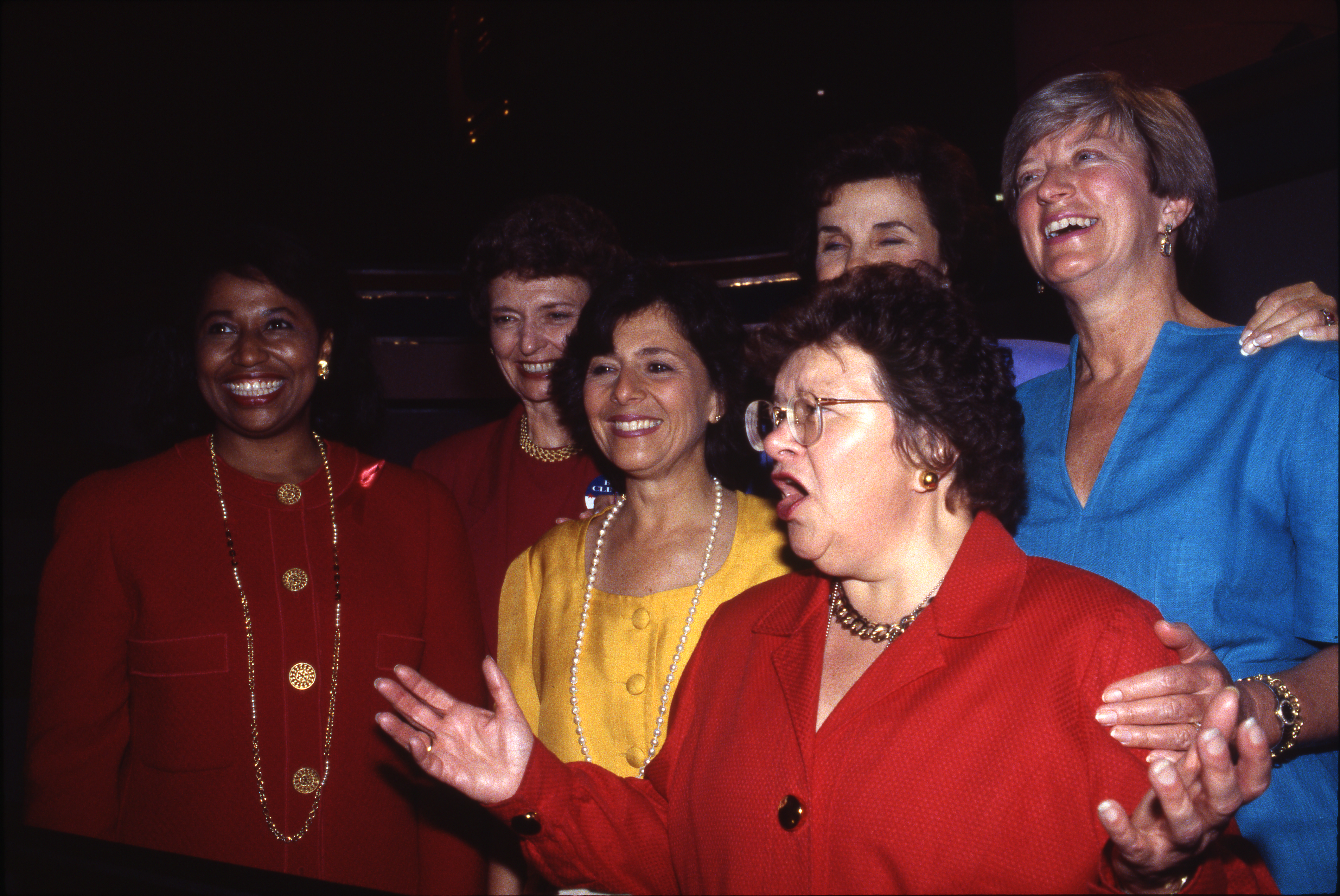 Senator Barbara Mikulski standing with women senatorial candidates (left to right) Carol Moseley-Braun, Barbara Boxer, Senator Patty Murray and others at 1992 Democratic National Convention, Madison Square Garden, New York City